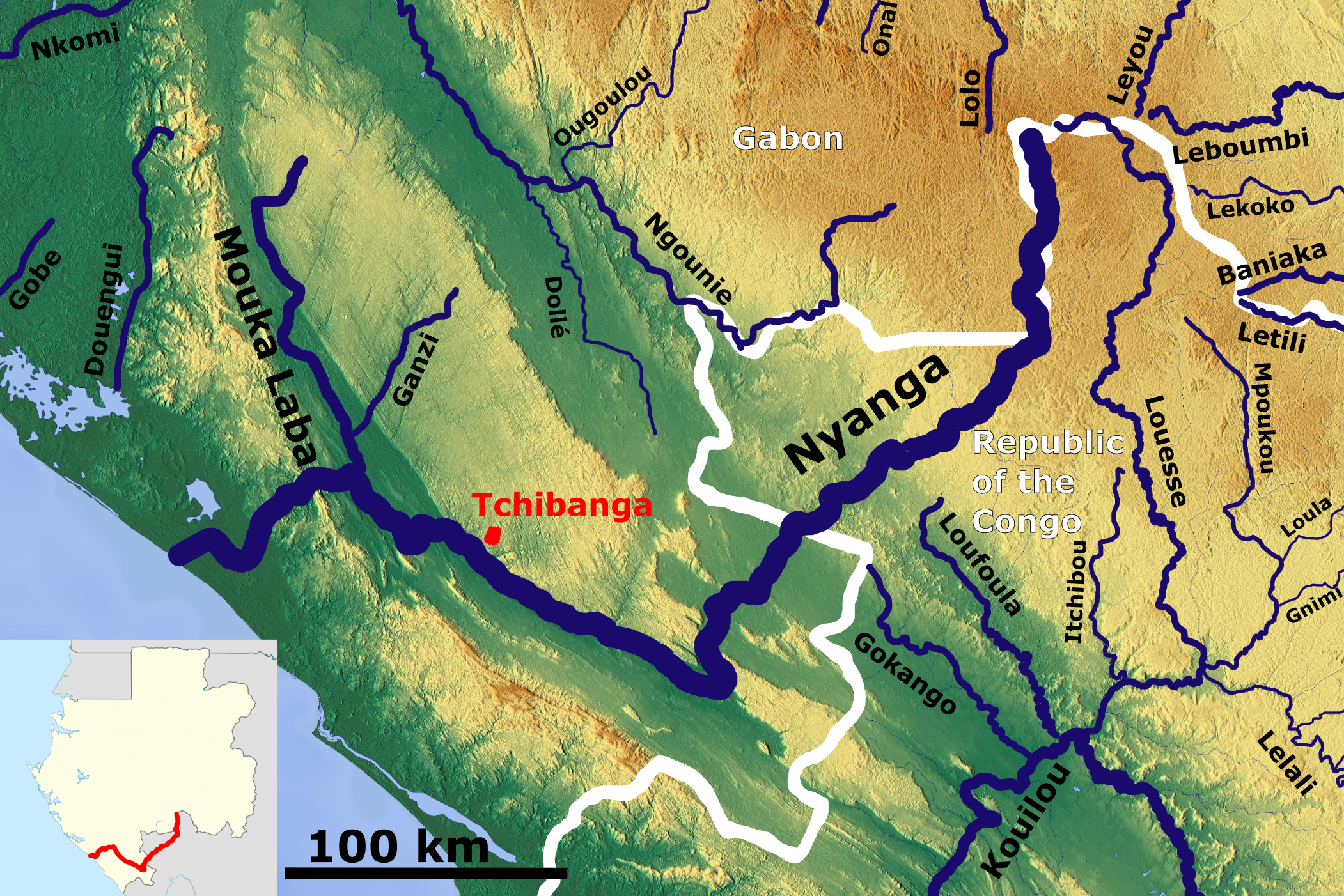 The Nyanga catchment OSM